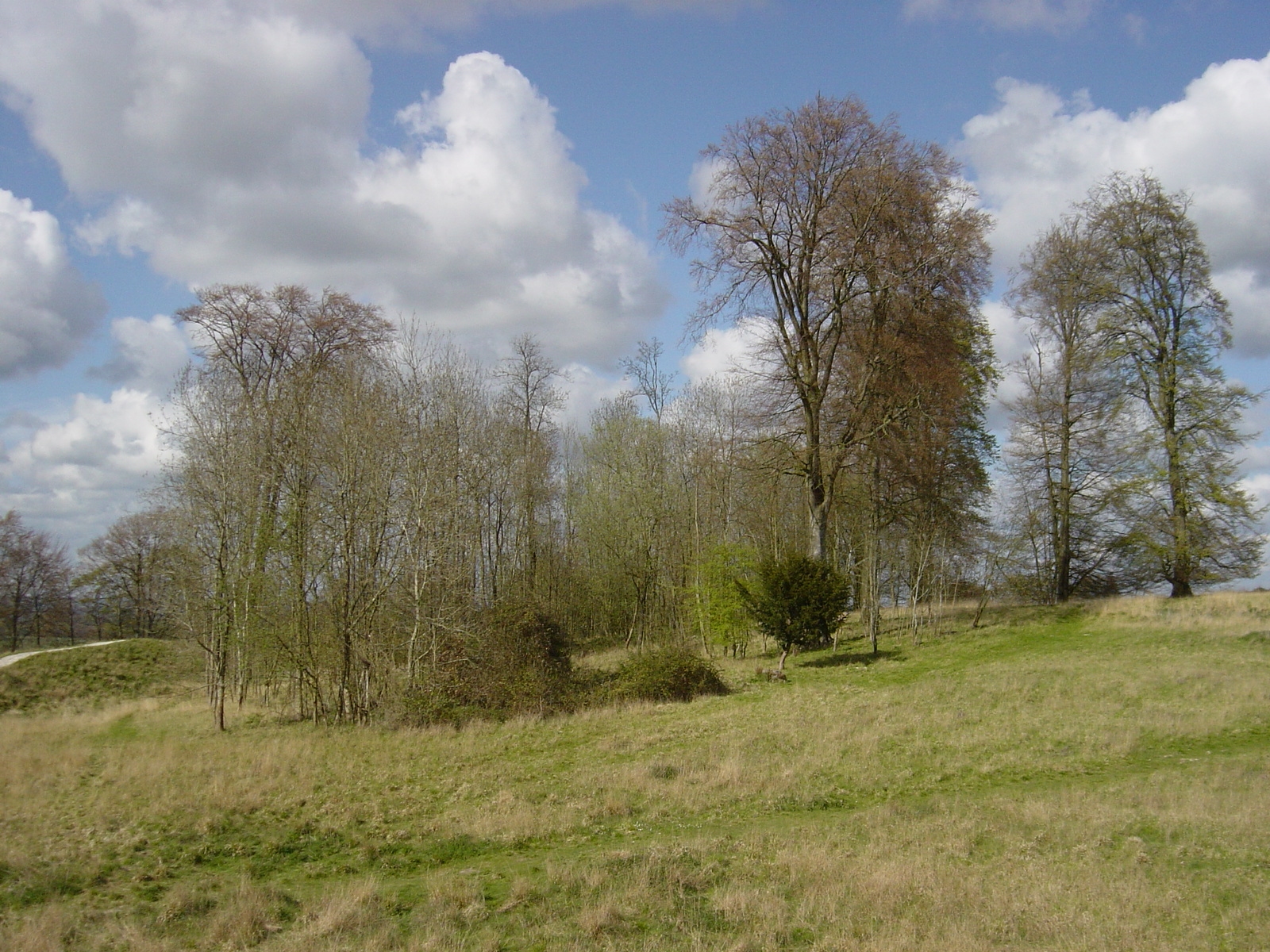 Atlas of Hillforts 3828 Trees within Danebury Ring, Hampshire, England